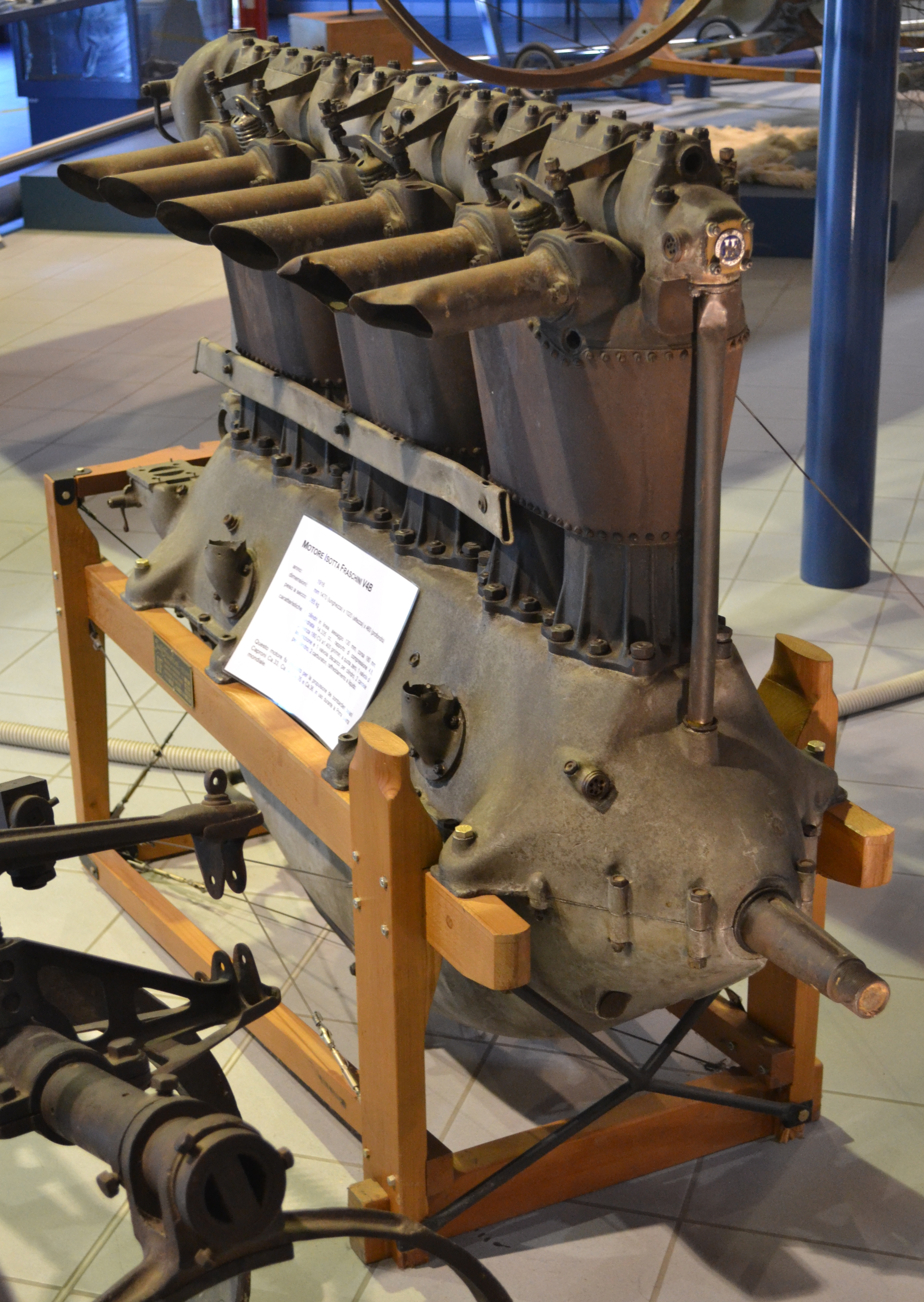 An Isotta Fraschini V.4B 6-cylinder inline engine from WWI on display at the Gianni Caproni Museum of Aeronautics.